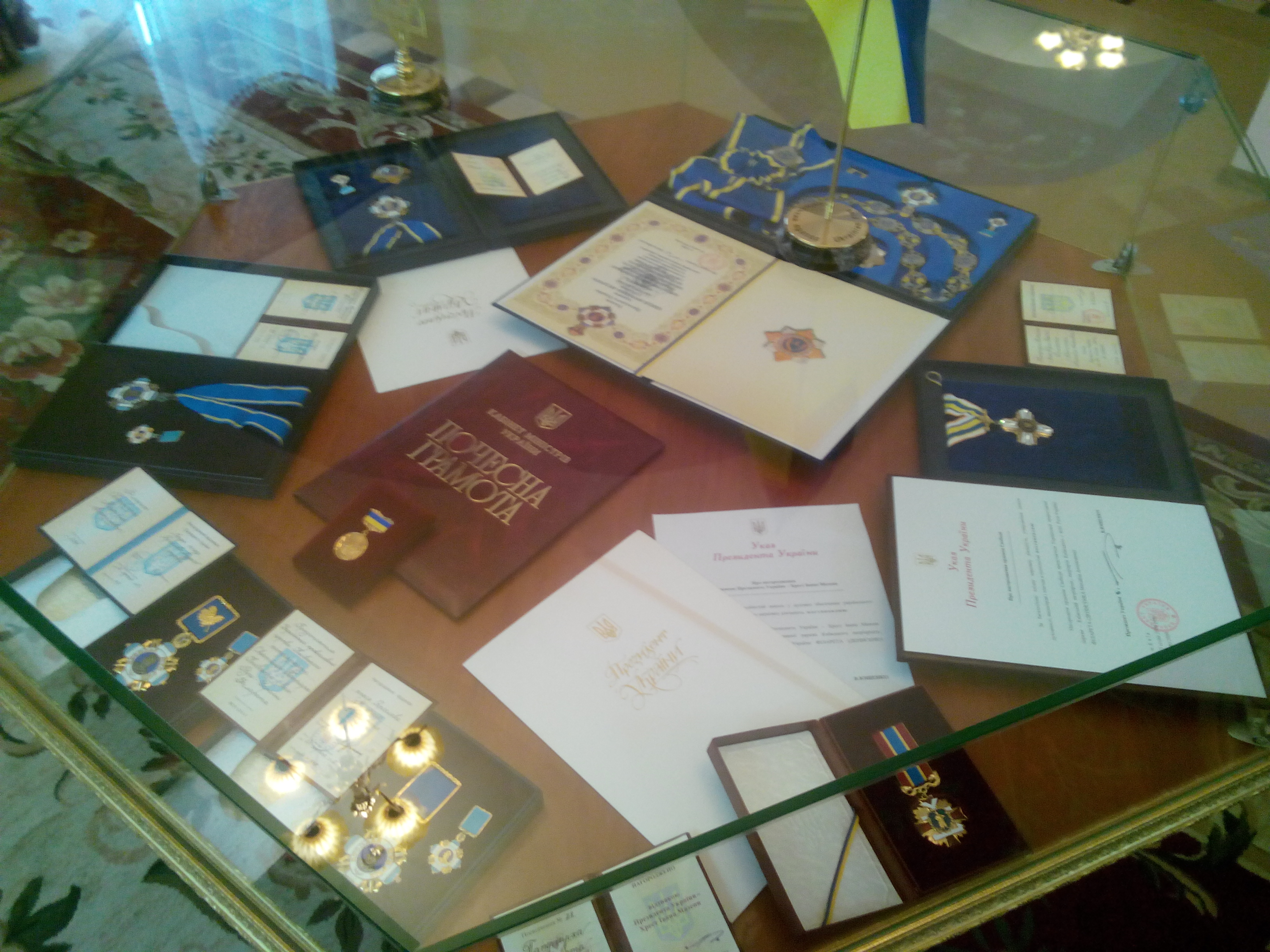 Нагороди святішого Патріарха Філарета